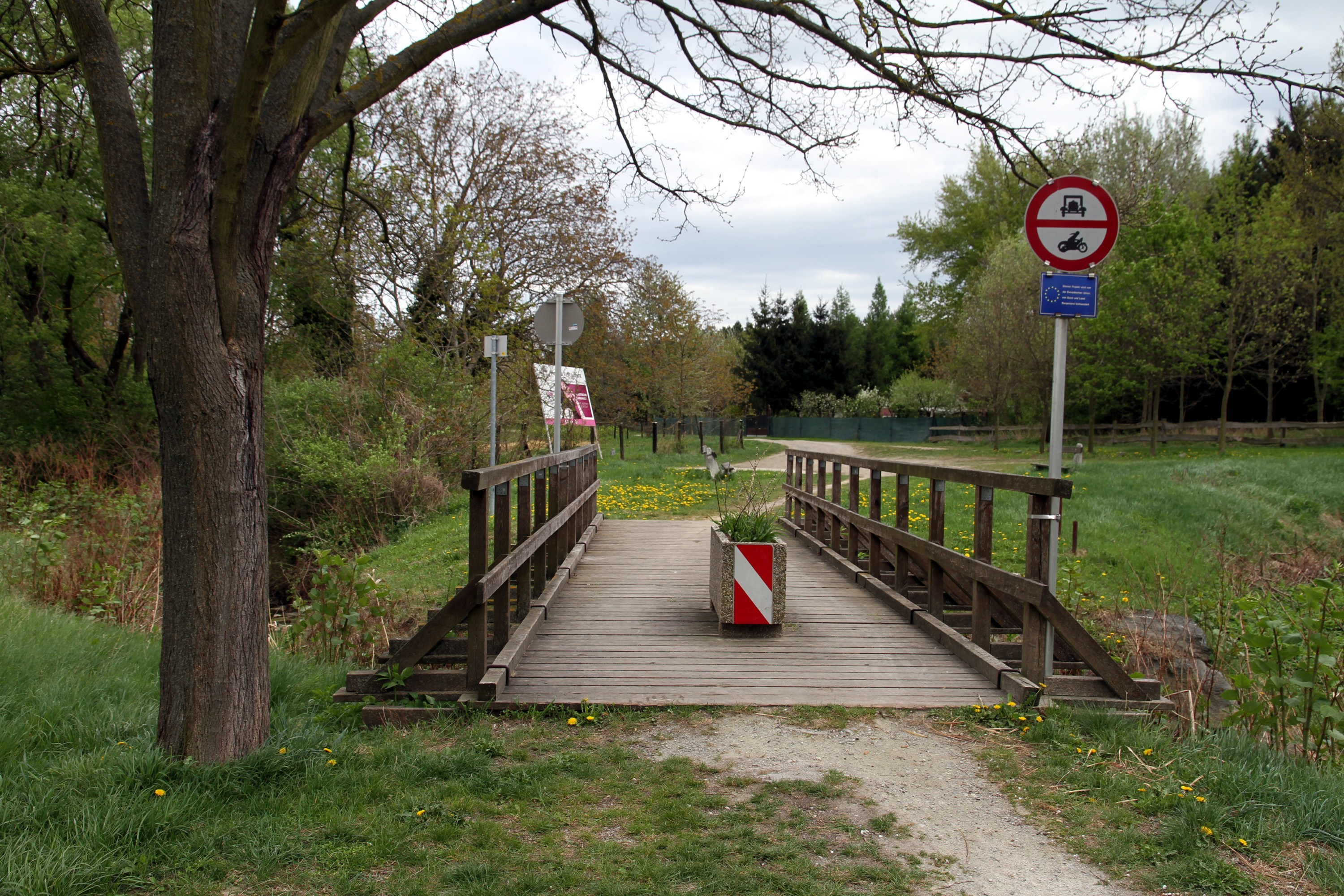 Austria-Hungary border - Loipersbach / Ágfalva borderbridge